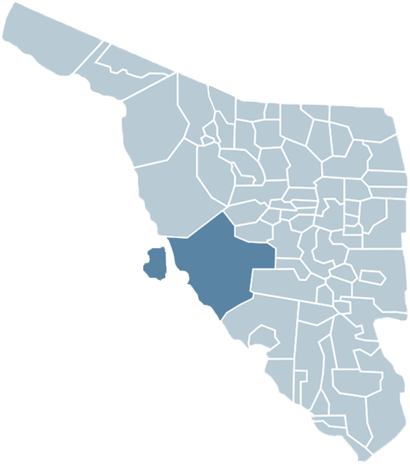 Map of the Municipalty of Hermosillo in the State of Sonora, México.